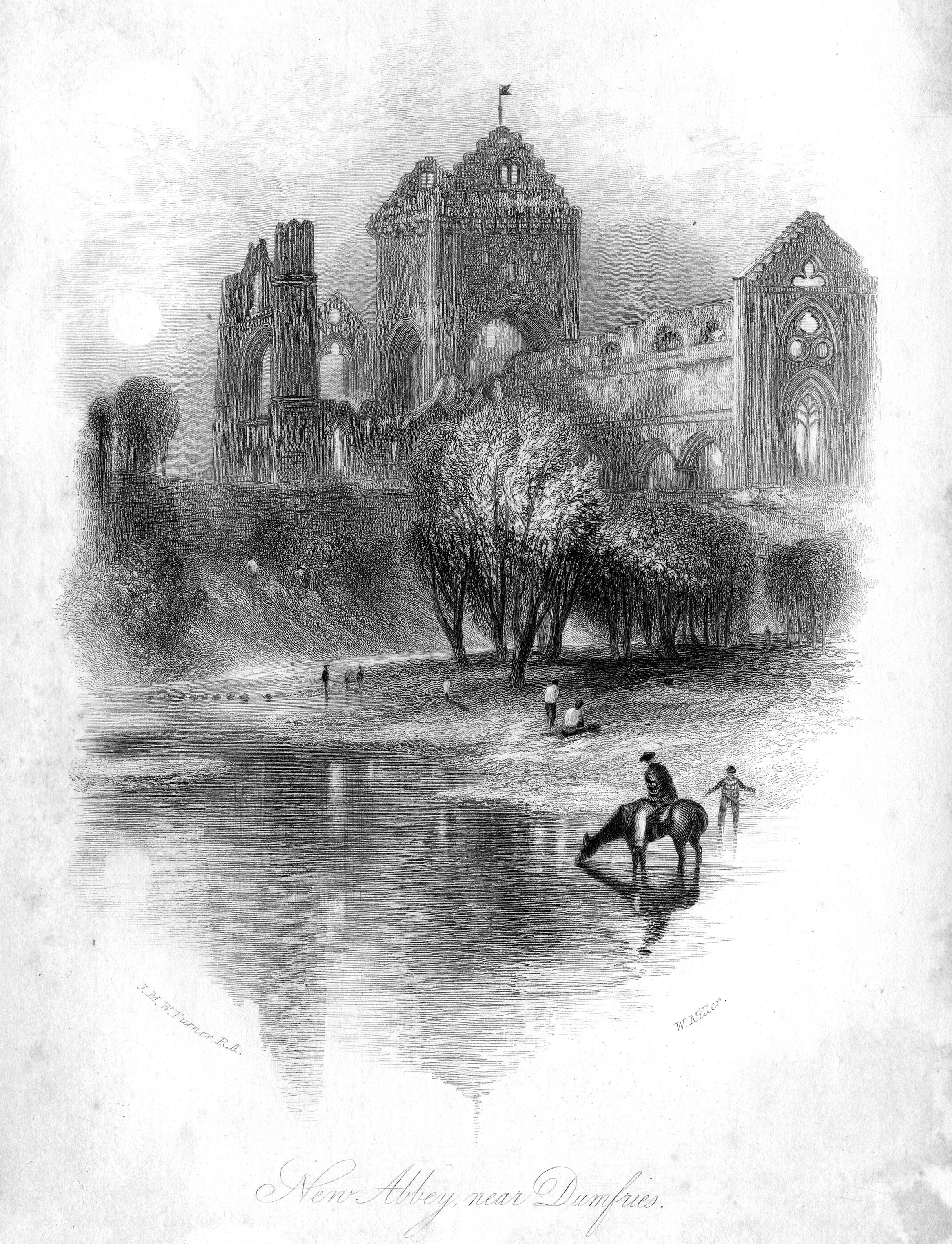 New Abbey, near Dumfries (Rawlinson 521) engraving by William Miller after Turner, published in The Miscellaneous Prose Works of Sir Walter Scott, Bart. Embellished with Portraits, Frontispieces, Vignette Titles and Maps. The Designs of the Landscapes from Real Scenes by J.M.W. Turner, R.A.. Edinburgh: Robert Cadell, Edinburgh; Whitaker, Arnot, and Company, London; John Cumming, Dublin 1834 - 1836